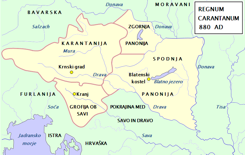 Map of Regnum Carantanum. From description of Regnum Carantanum Landscape in: Grafenauer, Bogo (2000). Karantanija: Izbrane razprave in članki. Ljubljana, Slovenska matica. Page 249; Štih, Peter (1986). Regnum Carantanum. From: Zgodovinski časopis letnik 40, 1986, št. 3. Page 218; for eastern borders: descriptions from Komatar, F. (1916): Zgodovina in geografija Avstro-Ogrske, page 862.